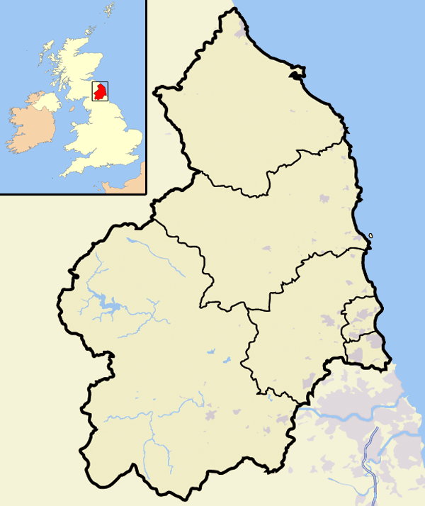 Map of the county of Northumberland, England, United Kingdom, with pre-2009 district boundaries.